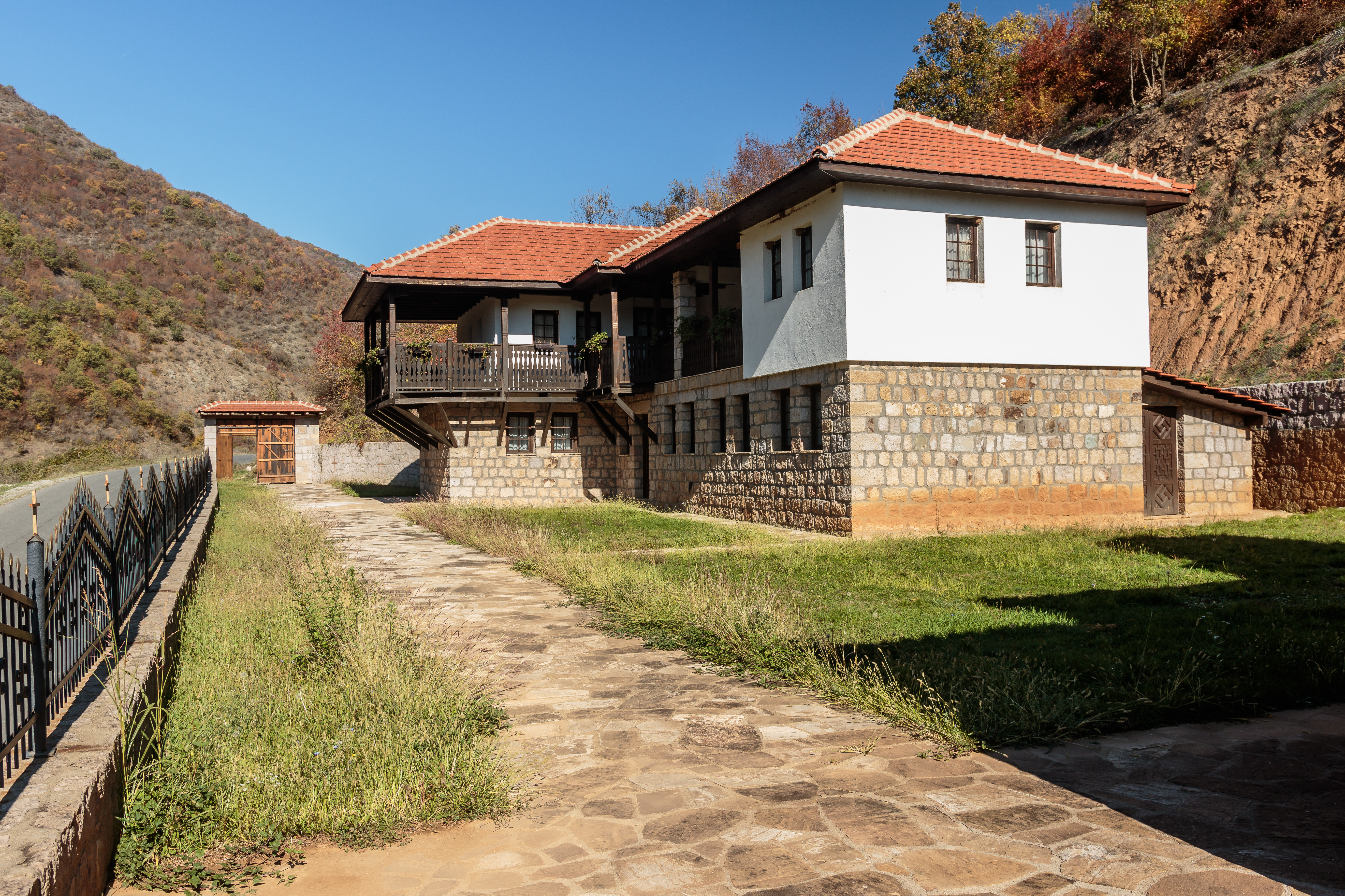 The konaks of the Zletovo Monastery, Zletovo-Probištip Region, Macedonia